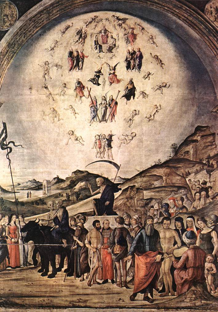 The Triumph over Death. Fresco Church of San Giacomo Maggiore, Bologna